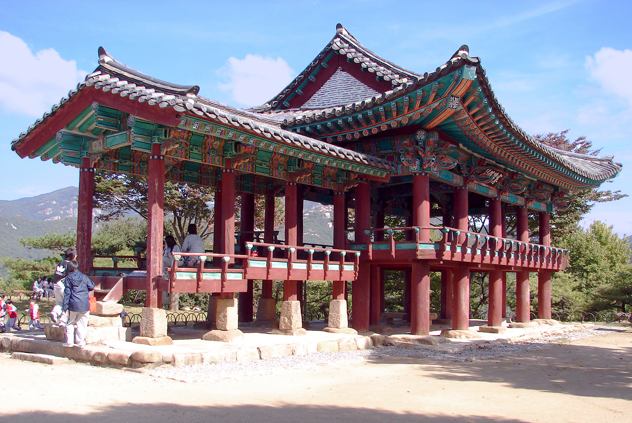 Hanbyeong-nu (pavilion) was built in 1317 as an auxiliary structure of a magistrate's office after this area of Cheongpung was elevated from the state of township to county. The pavilion has four bays on the front and three on the side elevations, with a double-story, half-hipped roof. There is a corridor leading to the hall on the west. The main pavilion was built in a double-wing-like bracket structure with double rafters featuring tilted eaves, while the corridor was in a single-wing-like bracket style with single rafters. Cheongpung Cultural Properties Complex - located by the Chungjuho Lake. This complex is a reconstructtion of Cheongpung, a village that became submerged after the construction of Chungju Dam. It took three years to relocate the buildings and structures in the current site at a cost of of over 1.6 trillion won. Designated Treasure #528.